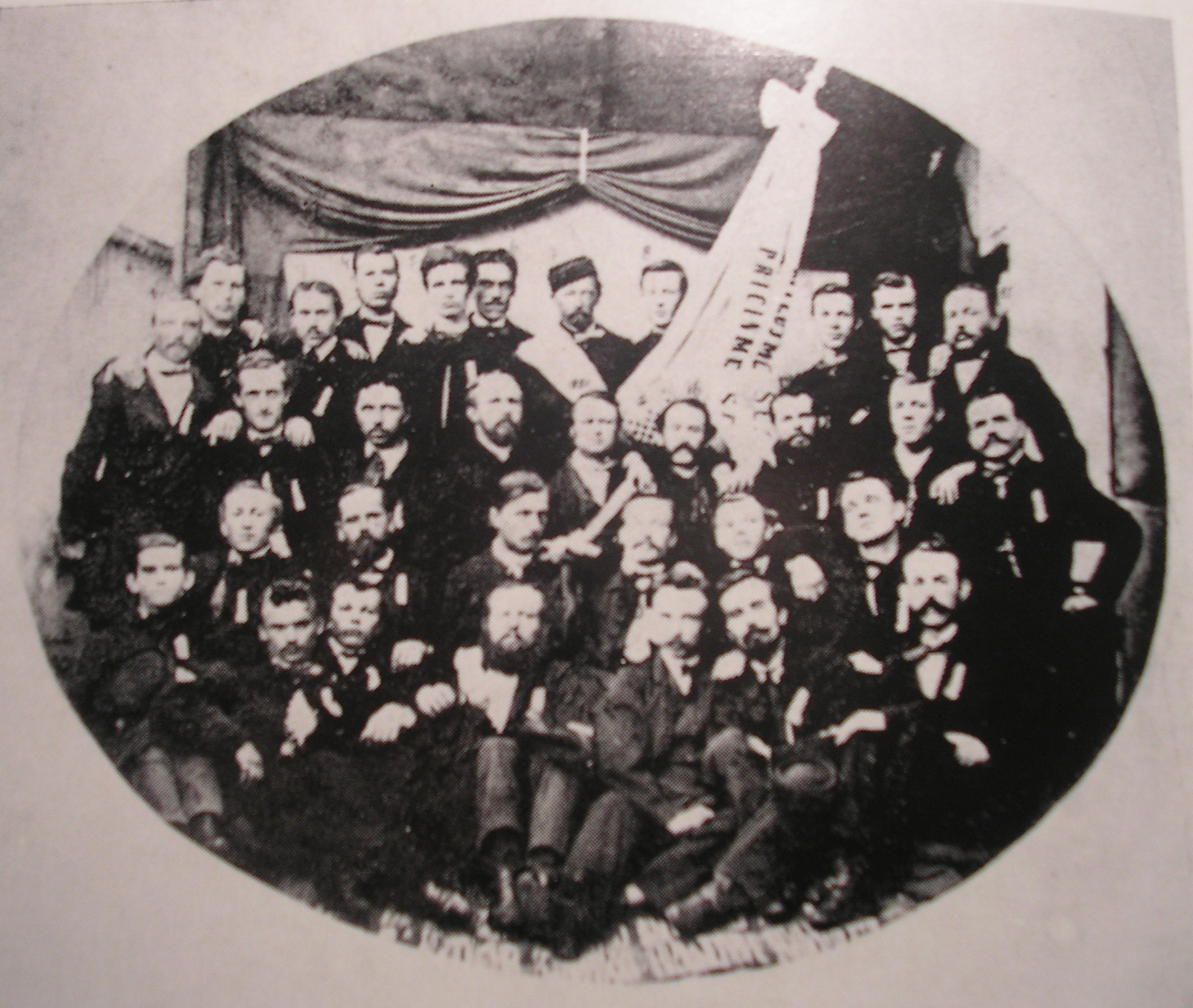 Měšťanská beseda in Třebíč about year 1900